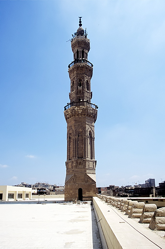 Small minaret the Sidi Ahmad el-Badawy mosque in Tanta, Egypt